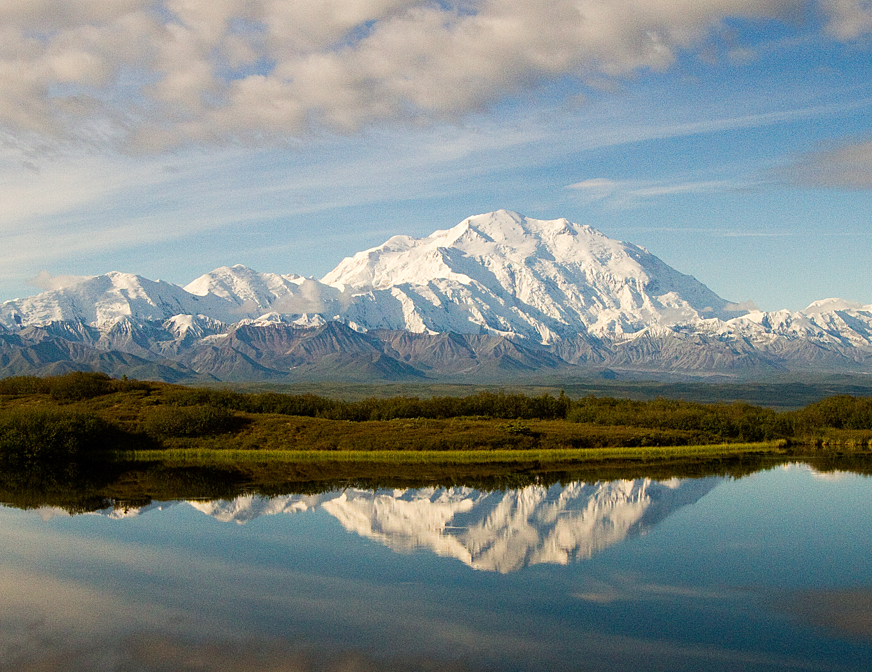 Wonder Lake and Denali (original Flickr title: Reflection Pond)